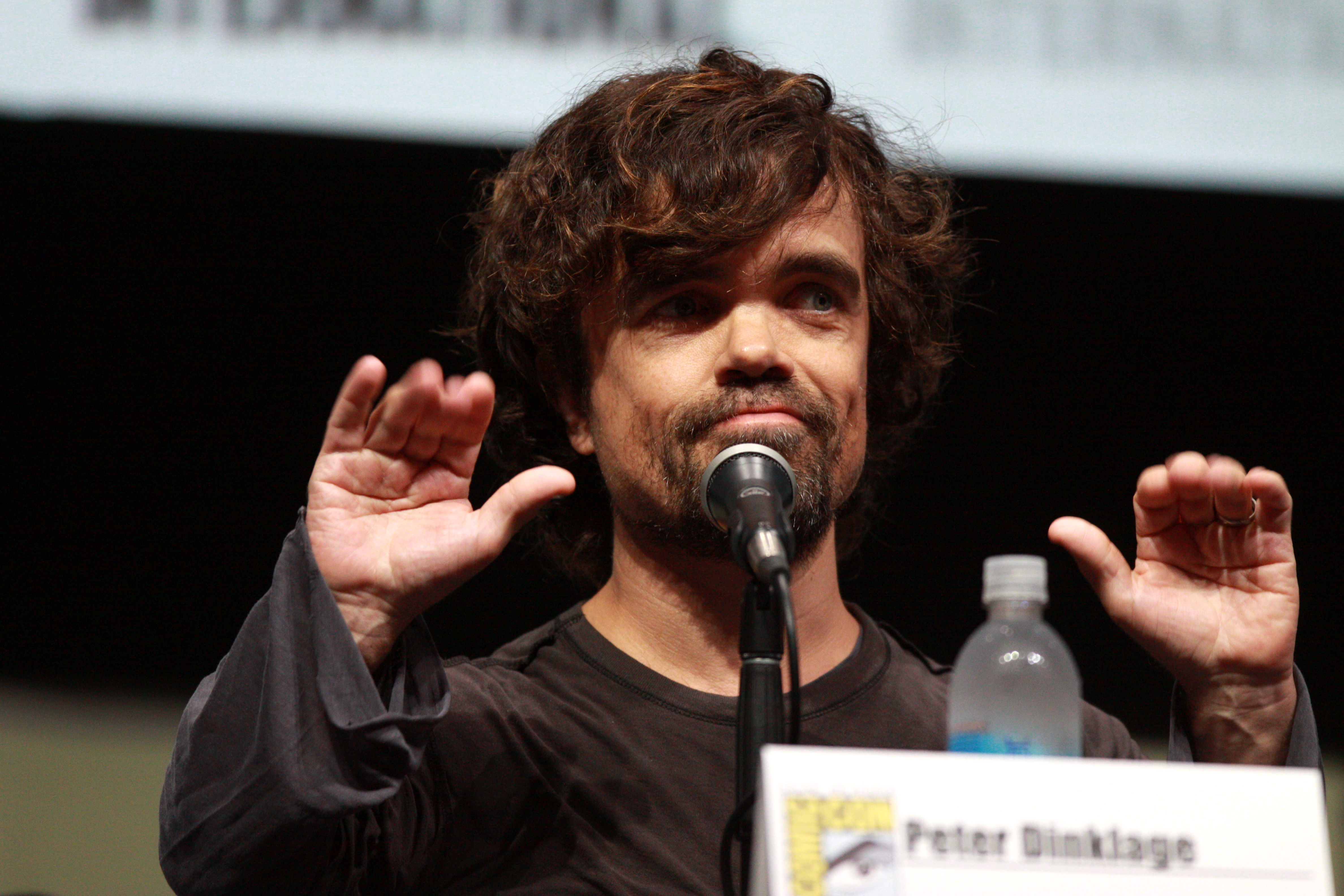 Peter Dinklage speaking at the 2013 San Diego Comic Con International, for "Game of Thrones", at the San Diego Convention Center in San Diego, California.